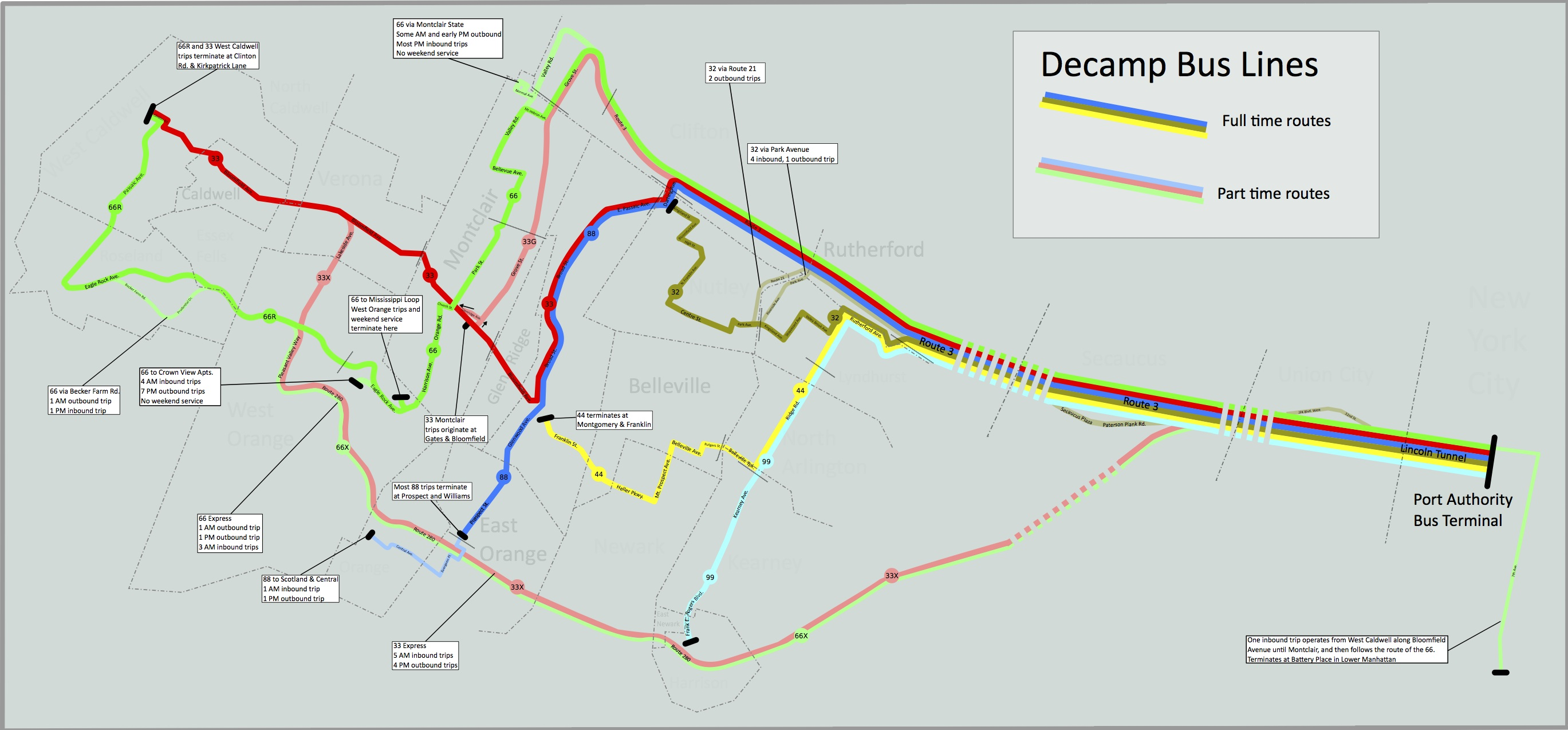 map of decamp bus lines